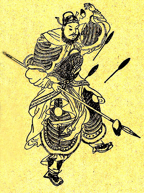 Portrait of Zhang He from a Qing Dynasty edition of the Romance of the Three Kingdoms